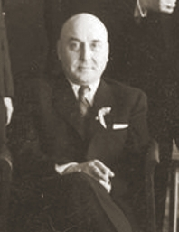 Alfred Biłyk, (1889-1939), Polish soldier and officer, Voivode of the Lwów Voivodeship, commited suicide in September 1939